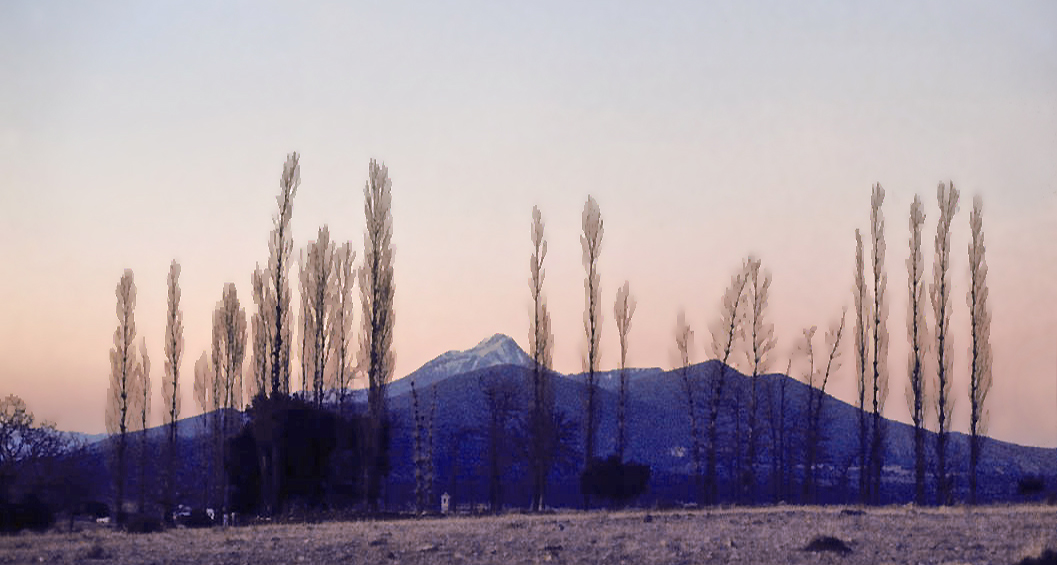 A row of Lombardy poplars [Populus nigra 'Italica'] next to the kilometer 24 of CM-1004 road; in the background, Ocejón Peak. Tamajón (Guadalajara, Castile-La Mancha, Spain)